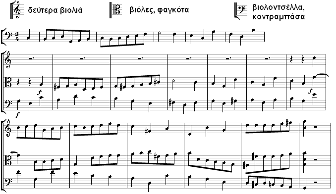 Beethoven, Symphony No. 5